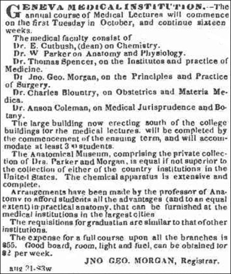 Advertisement for the upcoming semester at Geneva Medical Institution.